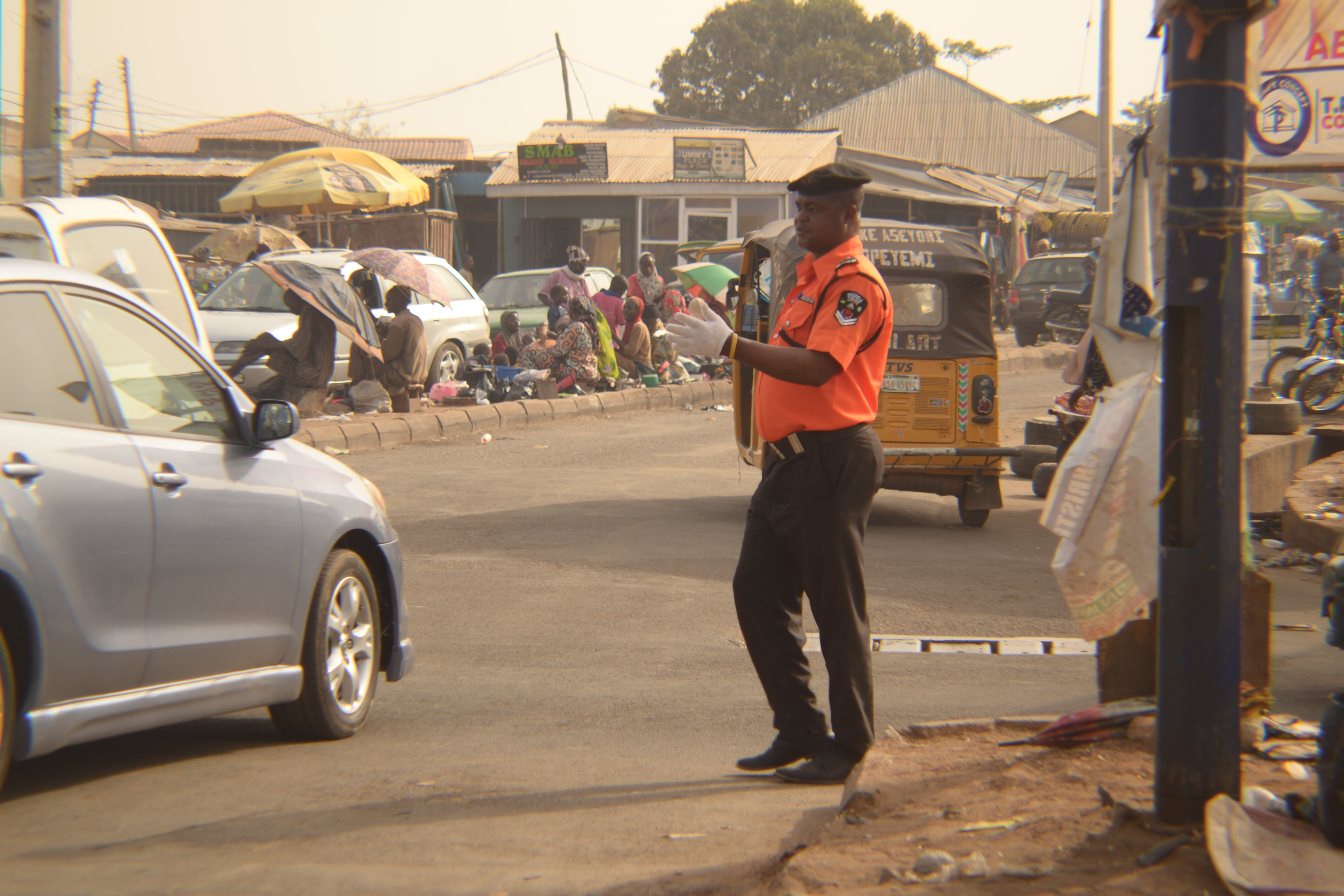 Traffic warden in Ilorin city, Kwara State This is an image with the theme "Africa on the Move or Transport" from: Nigeria